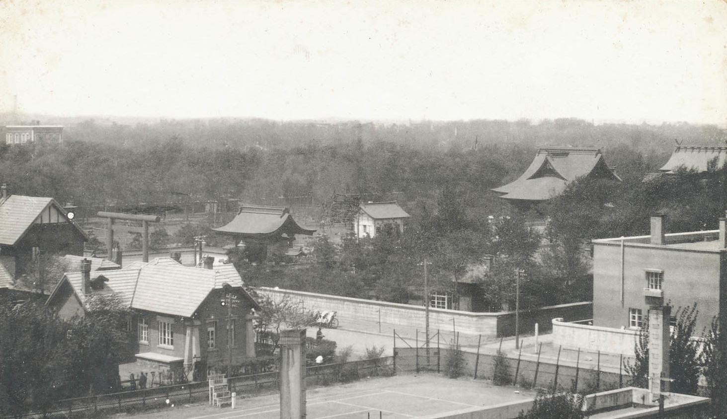 Houten Jinja(Mukden Shrine) viewed from south